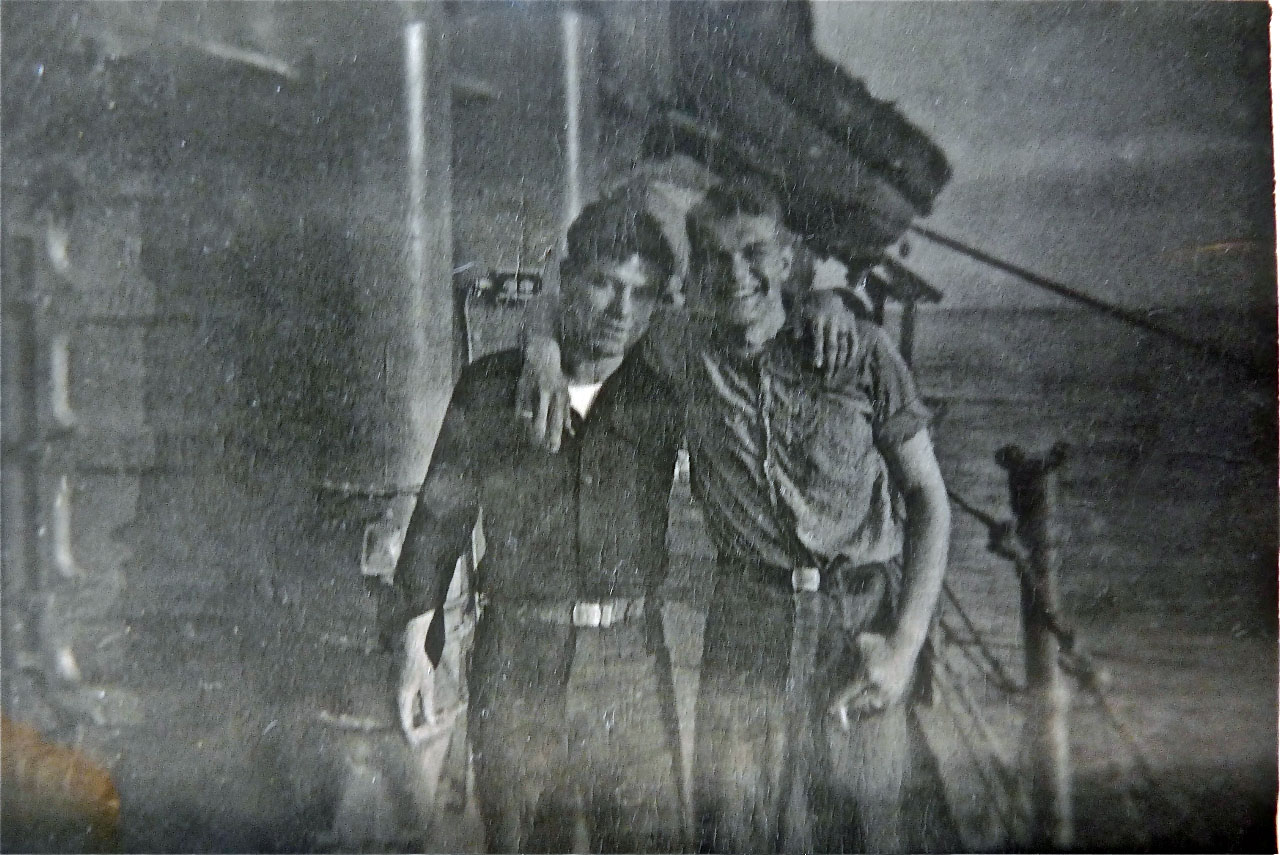 Crew member Harold Clifford Delong and other crew member on USS Concord at sea.